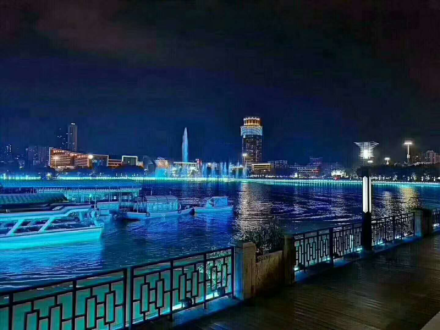 Zhaoqing, Guangdong, China